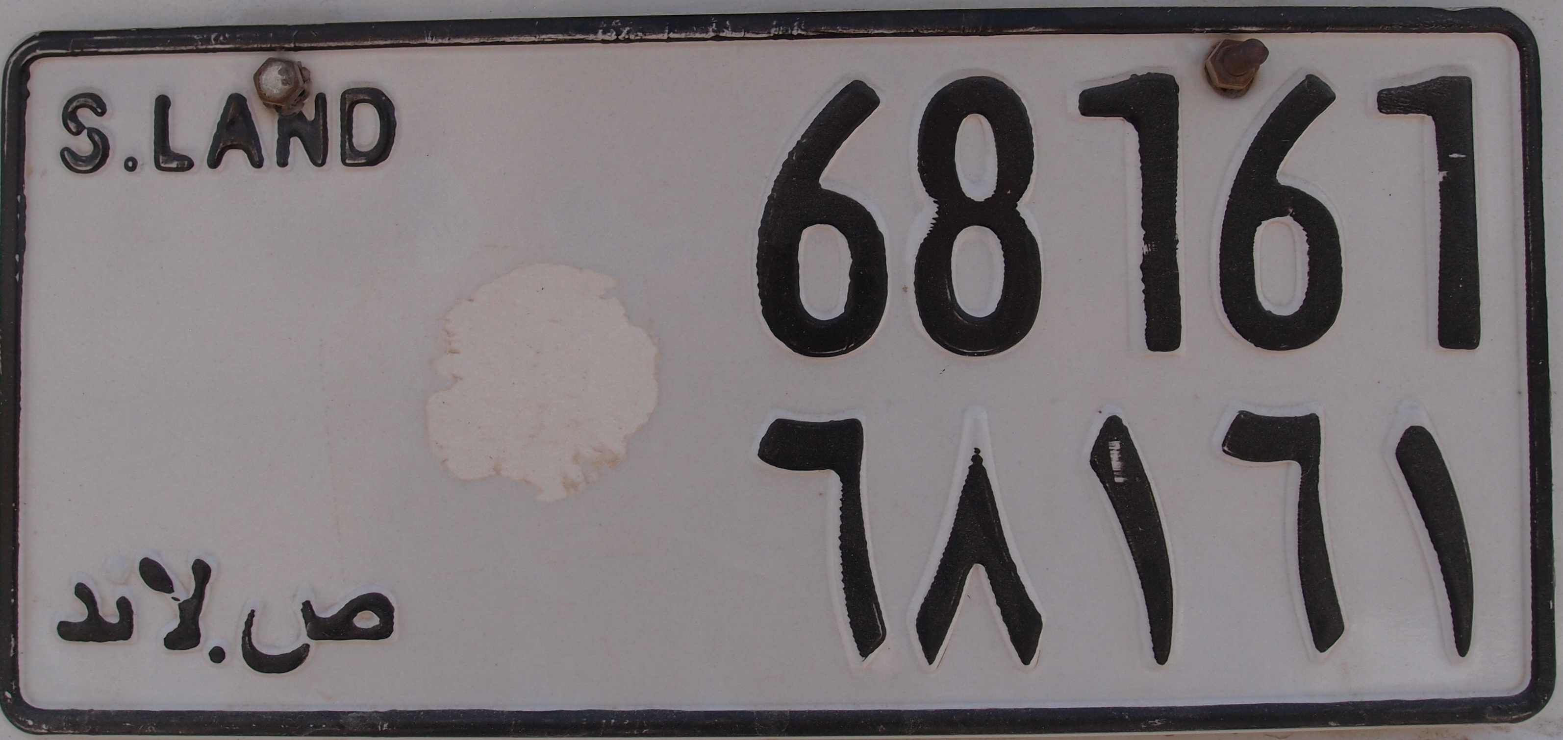 Somaliland vehicle license plate, new